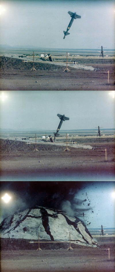 A GBU-24 Paveway III missle hits the groud - see also Paveway